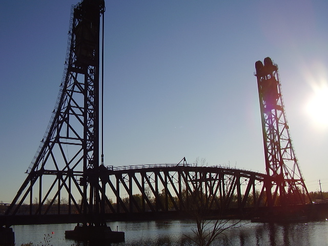 Photograph of train lift bridge located along the Welland Canal in Dain City, Ontario.